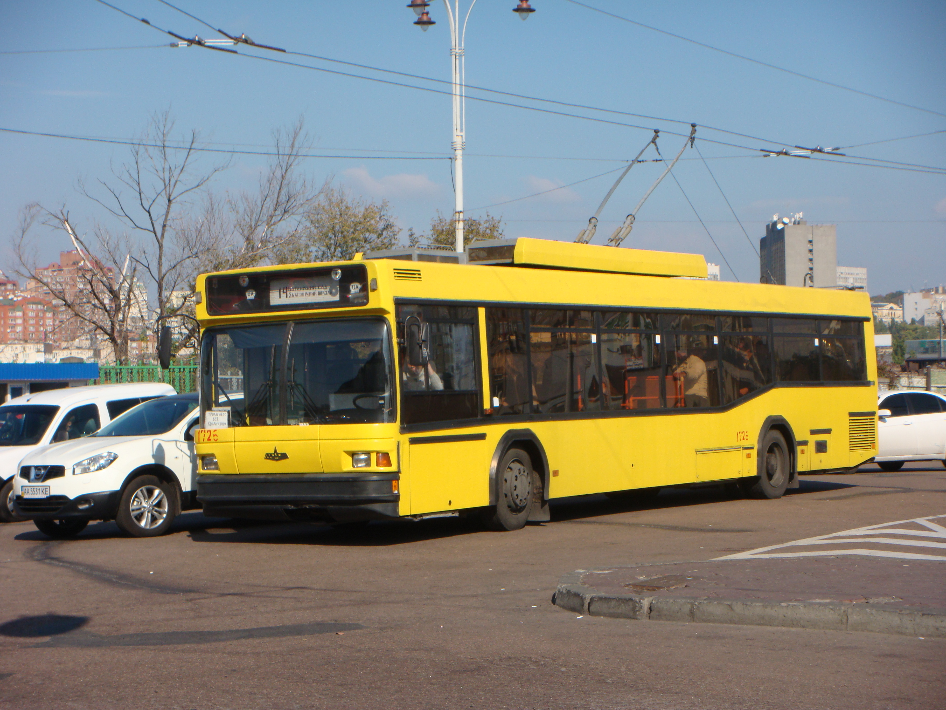 MAZ-103T trolleybus in Kiev